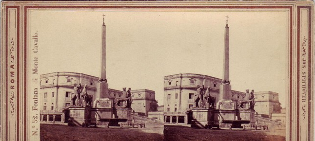 Josef Spithöver (1813-1892) - ""Rome - Fountain at Monte Cavallo" . Stereo card. Catalogue number: 85.